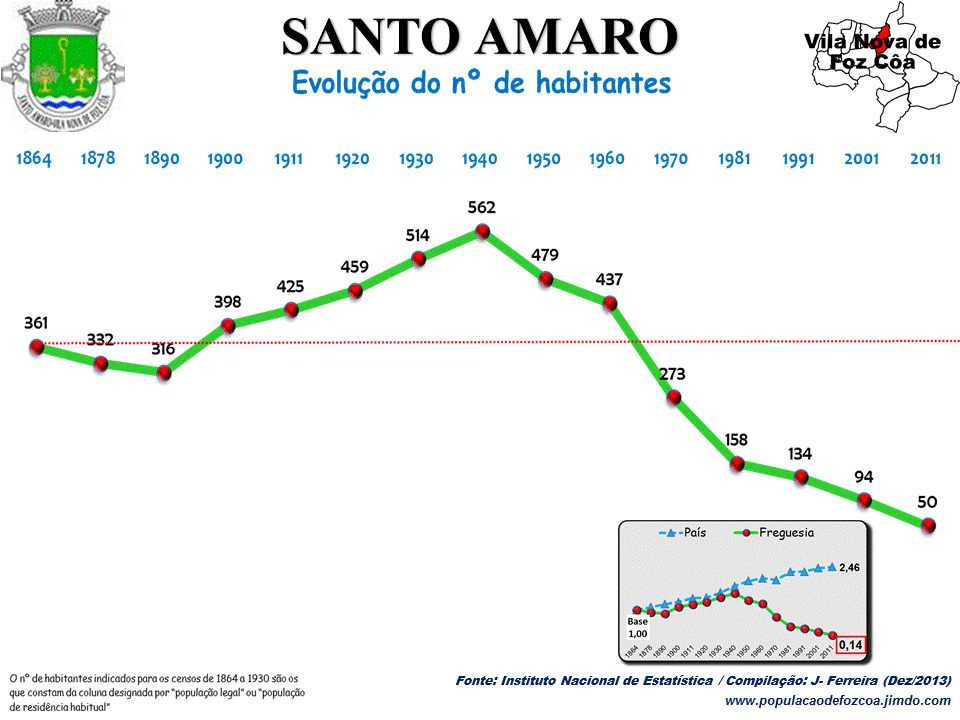 Evolução da População 1864 / 2011